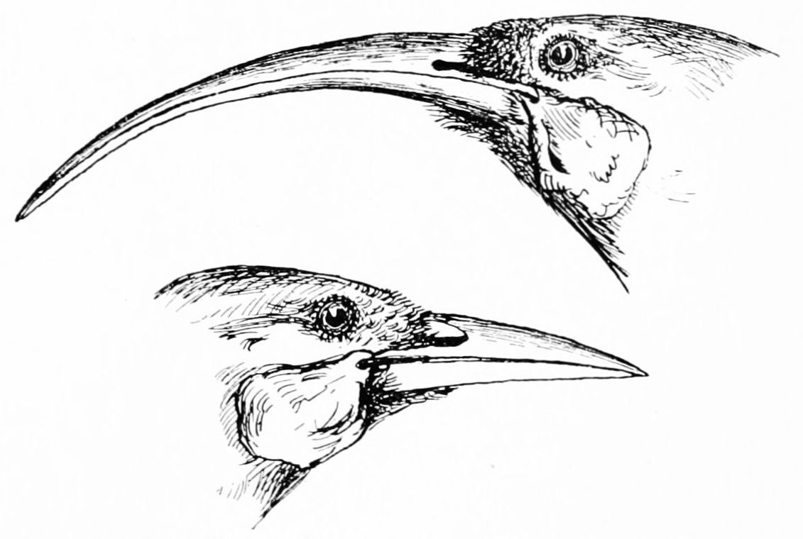 The Huia Heteralocha - female and male on bottom